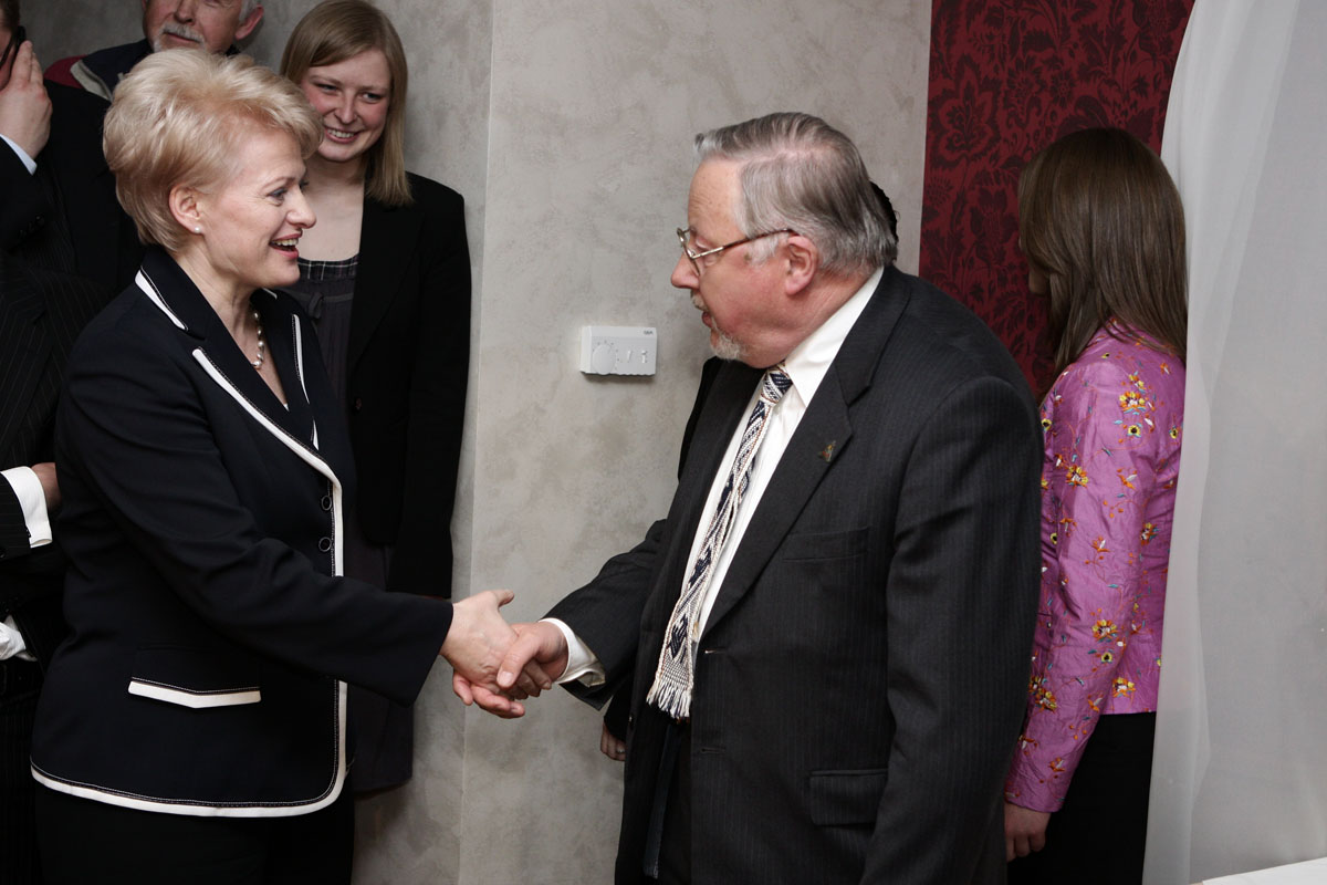 Presidential election of Lithuania, 2009-05-17. Dalia Grybauskaitė and supporters waiting for results. Vytautas Landsbergis